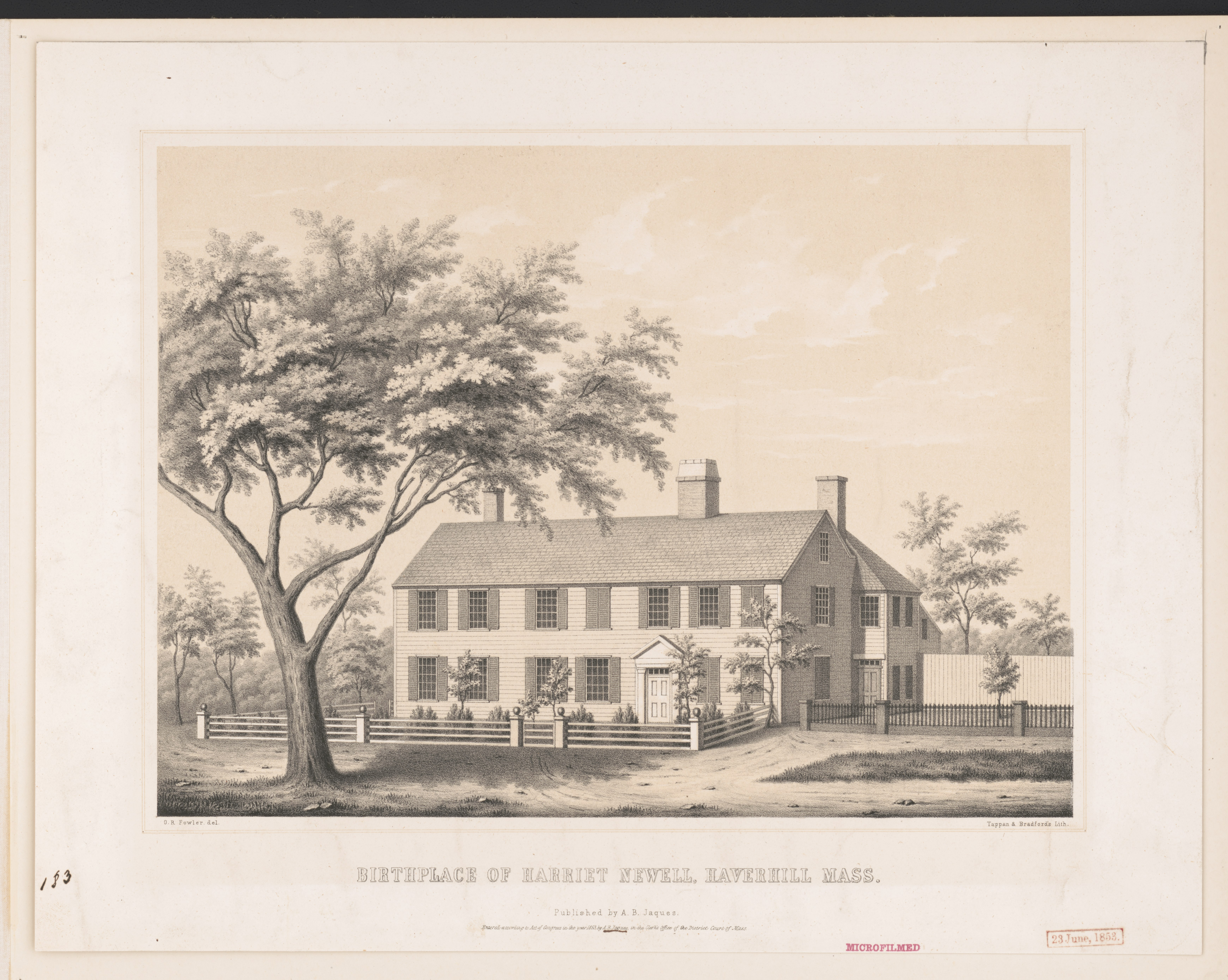 Title: Birthplace of Harriet Newell, Haverhill Mass Physical description: 1 print. Notes: This record contains unverified data from PGA shelflist card.; Associated name on shelflist card: Tappan & Bradford.